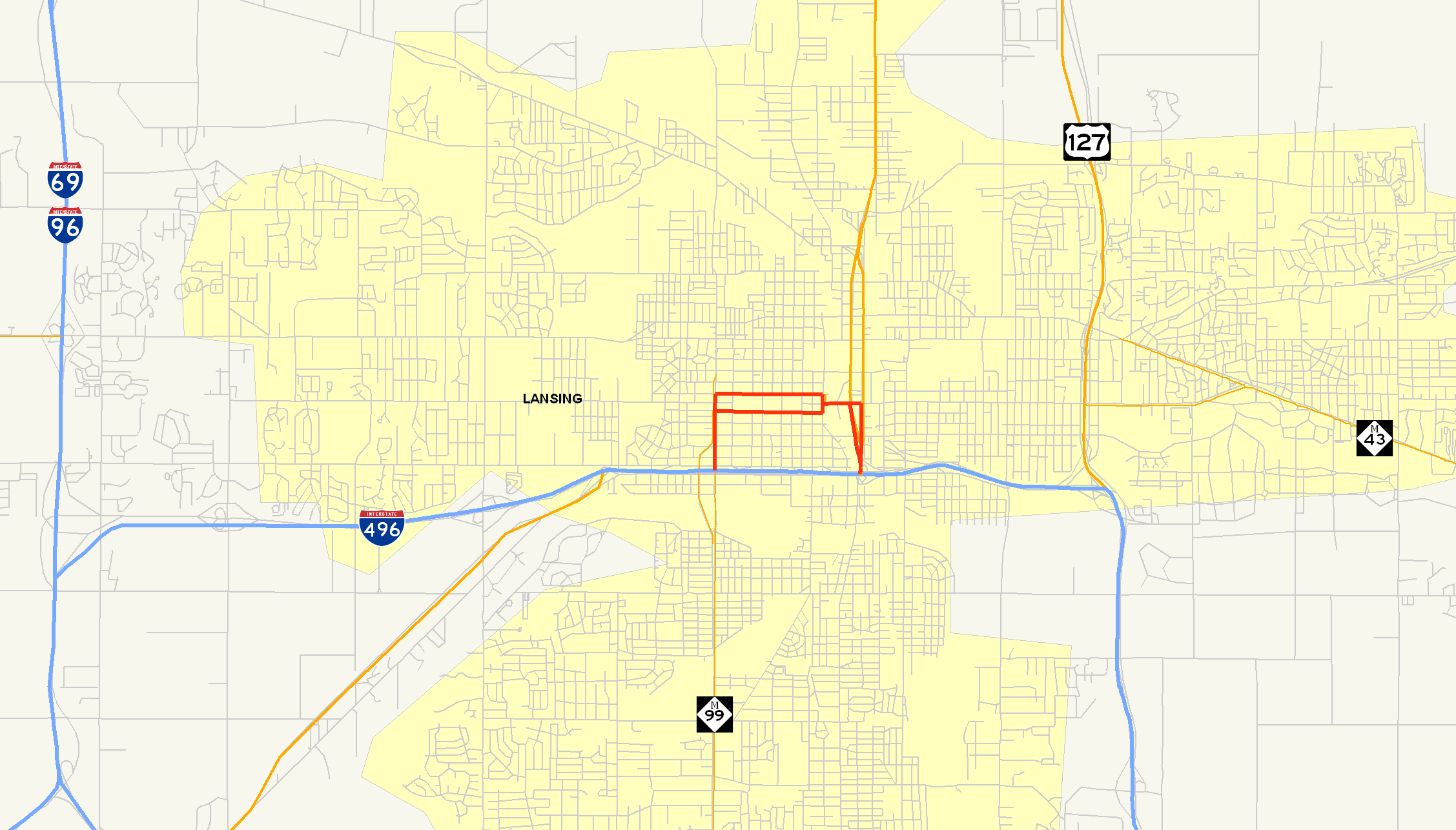 Map of the Capitol Loop in Lansing, MI